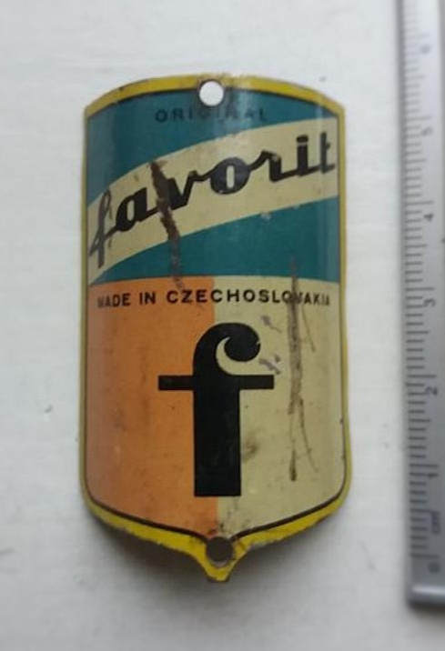 Stitek